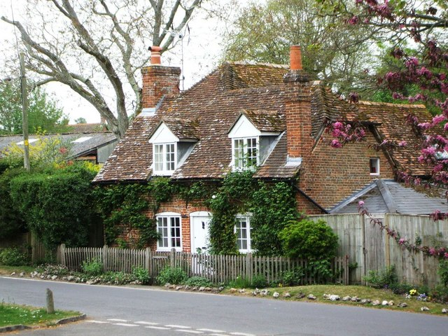 Cottage in Mottisfont The National Trust owns most of the 64 houses within the estate of Mottisfont, mostly in the village itself.